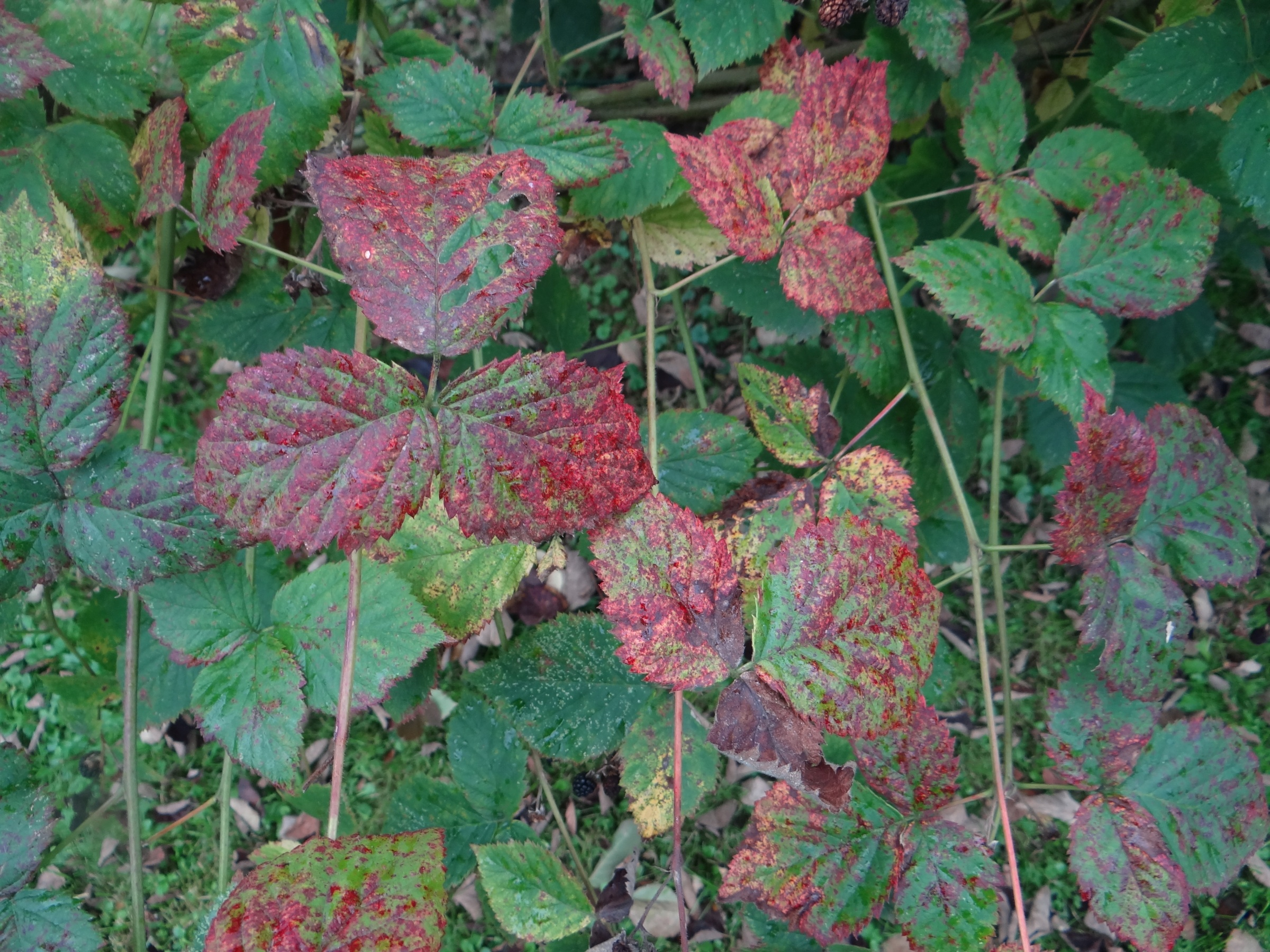 Phragmidium violaceum on Rubus sp.